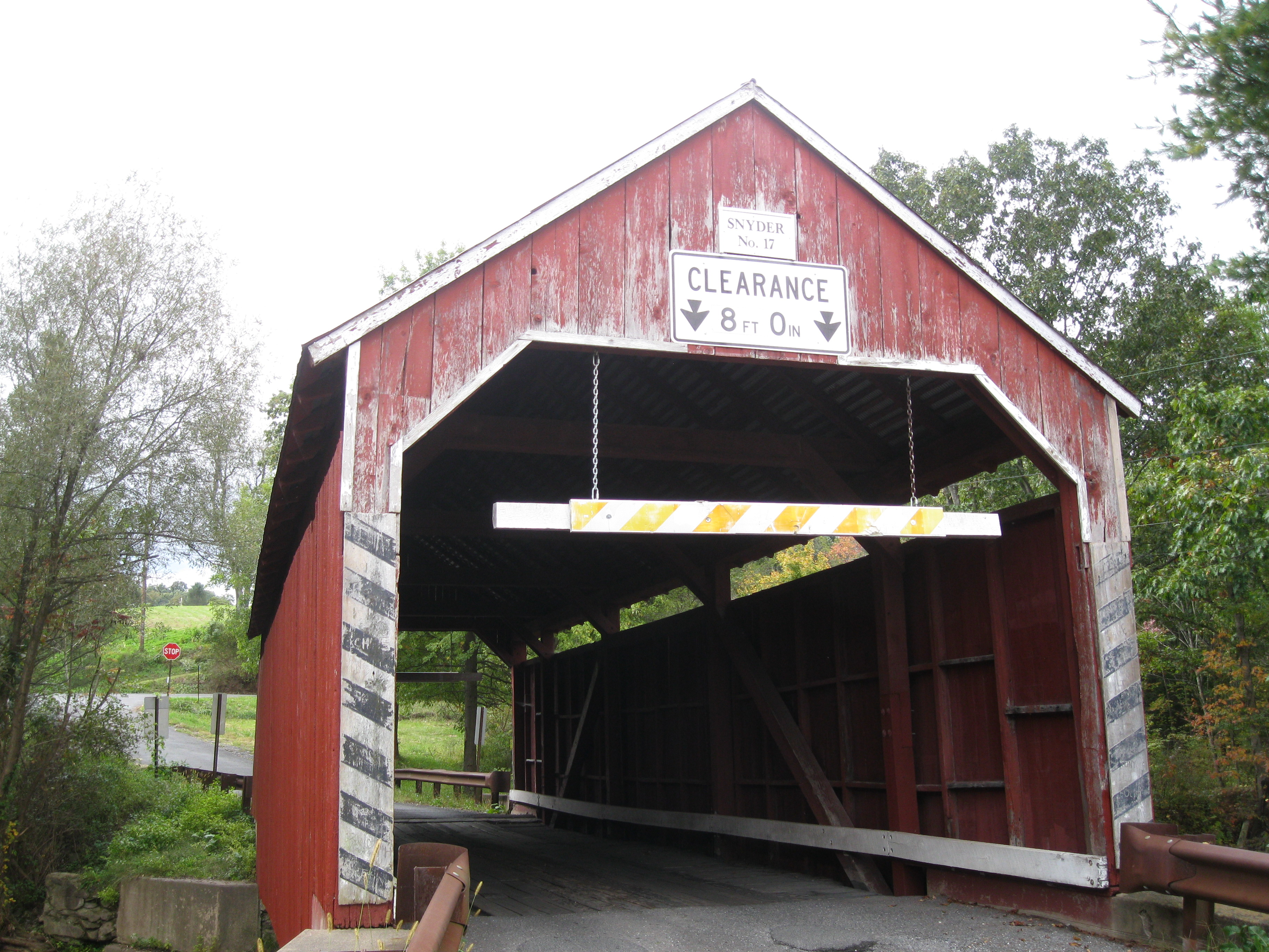 Snyder Covered Bridge No. 17 originally built in 1860 over the North Branch of Roaring Creek in Locust Township in Columbia County, Pennsylvania, in the United States.